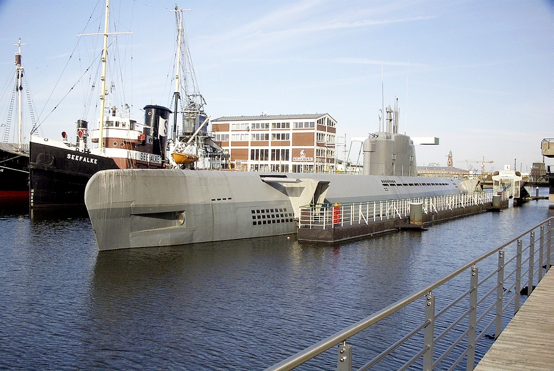 u-boat wilhelm bauer bremerhaven, germany by Uwe H. Friese 2002 .